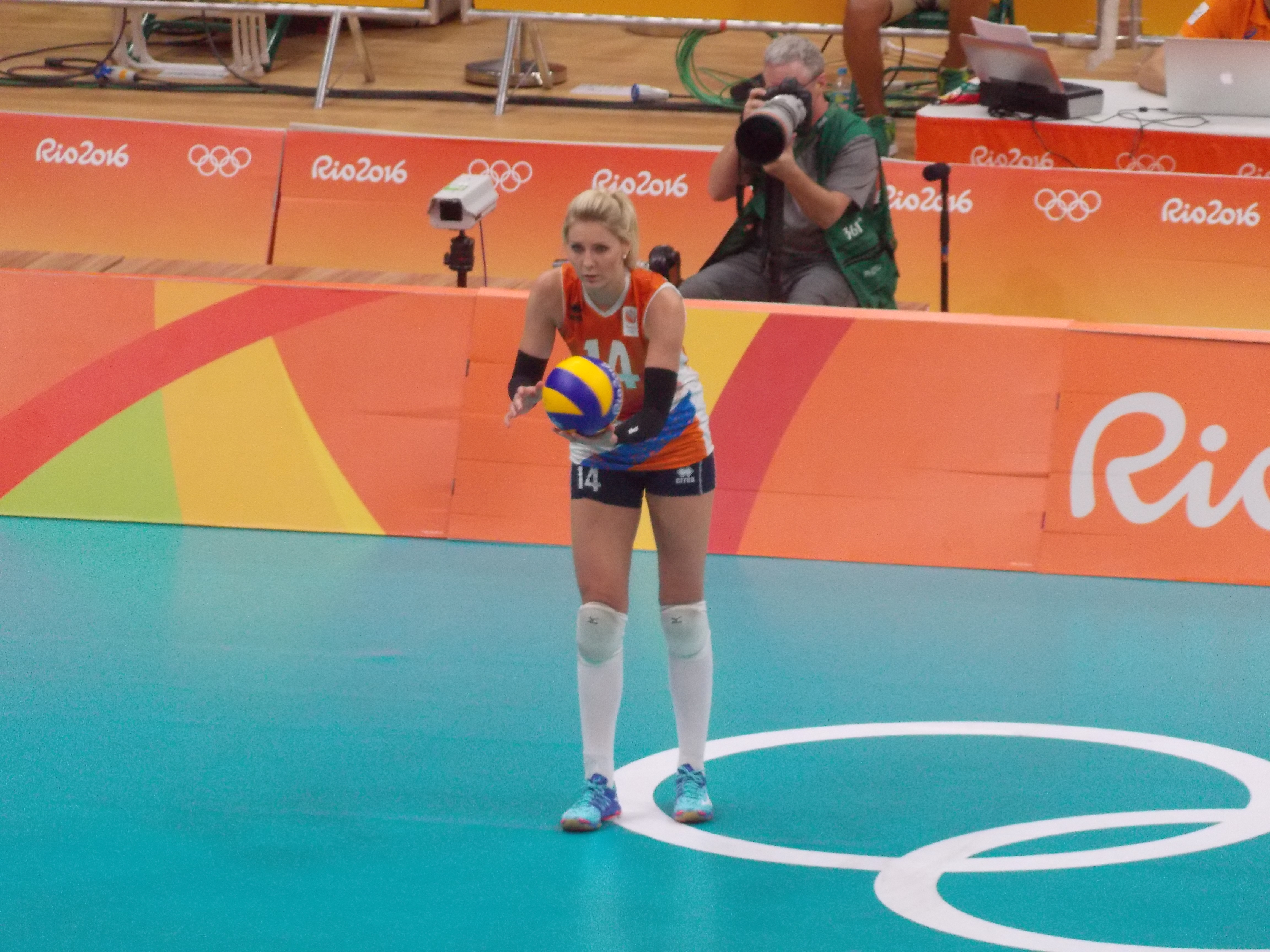 Volleyball at the 2016 Summer Olympics – Women's tournament: South Korea 1x3 Netherlands (19–25, 14–25, 25–23, 20–25).